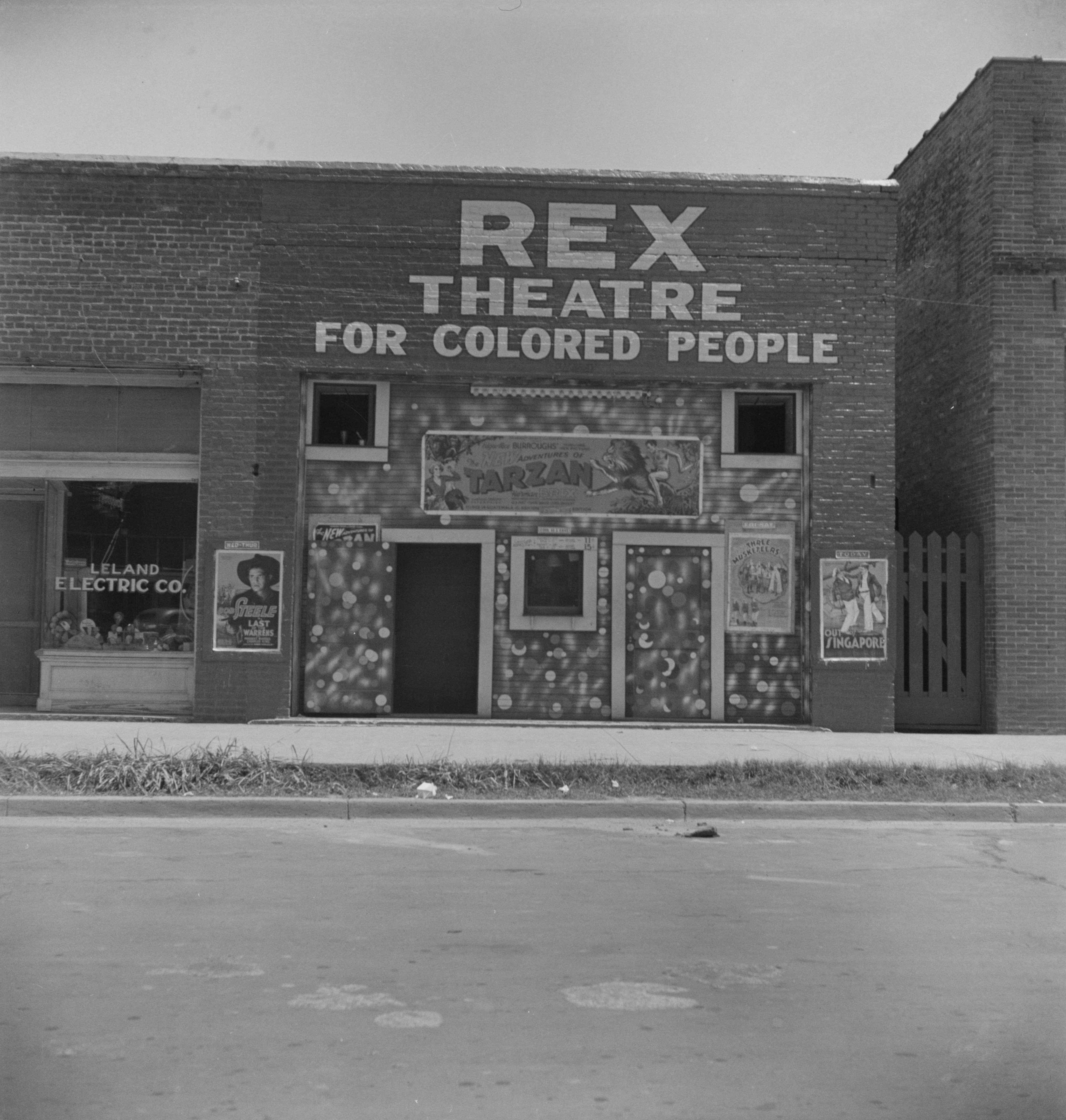 Rex Theatre for Colored People, Leland, Mississippi - June 1937 By Dorothea Lange